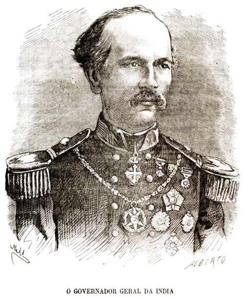 João Tavares de Almeida, governor-general of Portuguese India